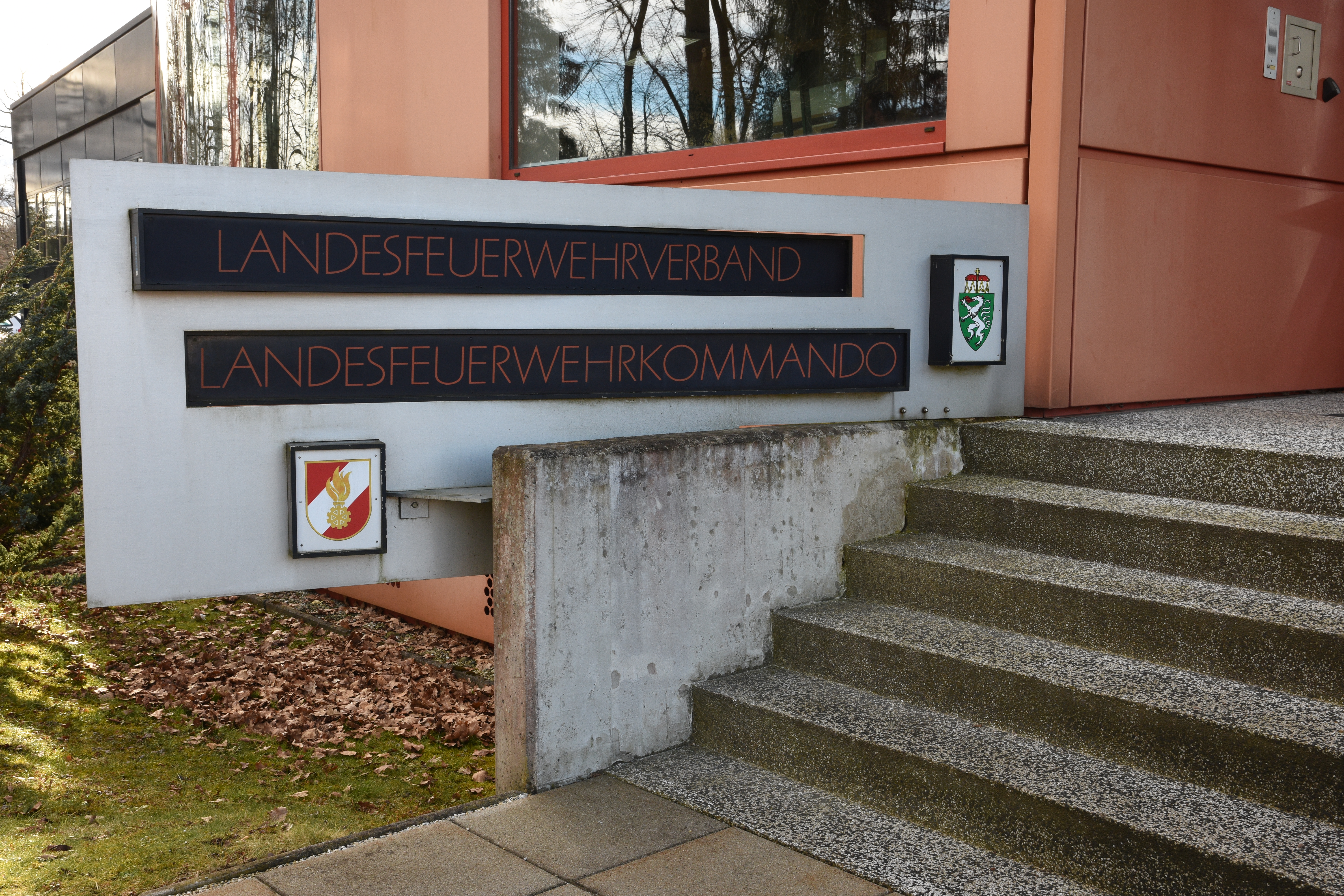 Firefighting in Styria